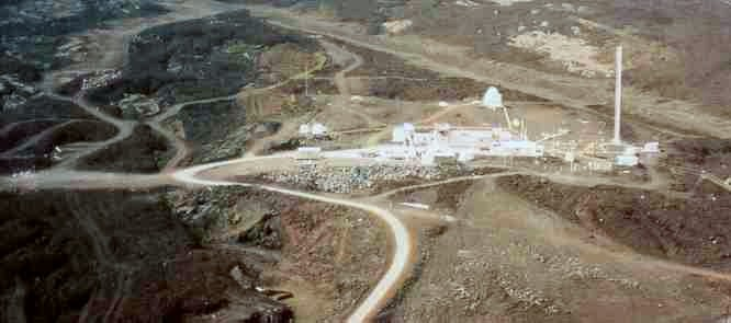 The Mauna Loa Observatory is located two miles north of the summit, at 11,135 ft elevation. It is run by the National Oceanic and Atmospheric Administration, and known for measuring carbon dioxide.